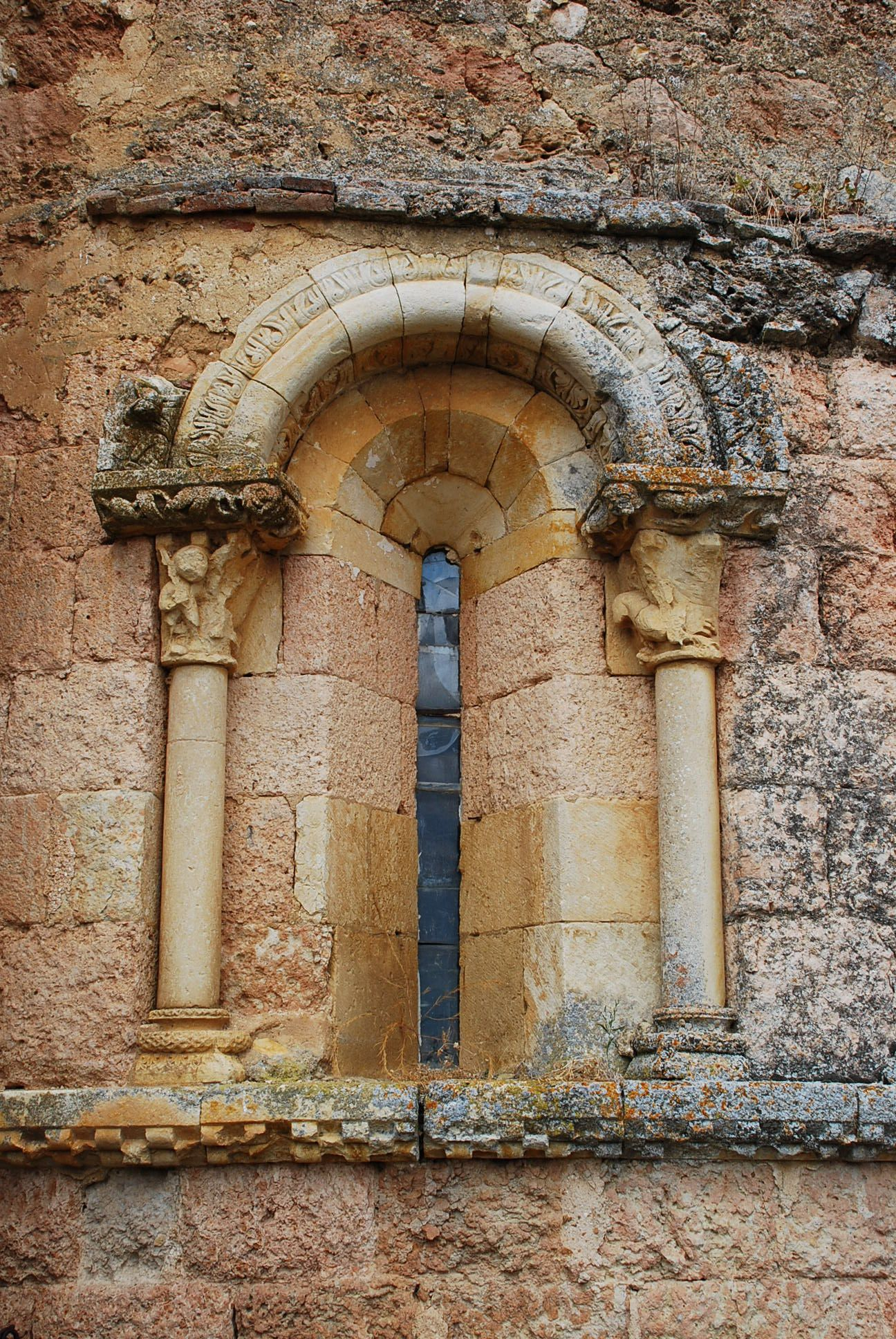 Romanesque window of the apse of the Church of Nuestra Señora de la Natividad in Páramo de Boedo (Palencia, Castile and León).